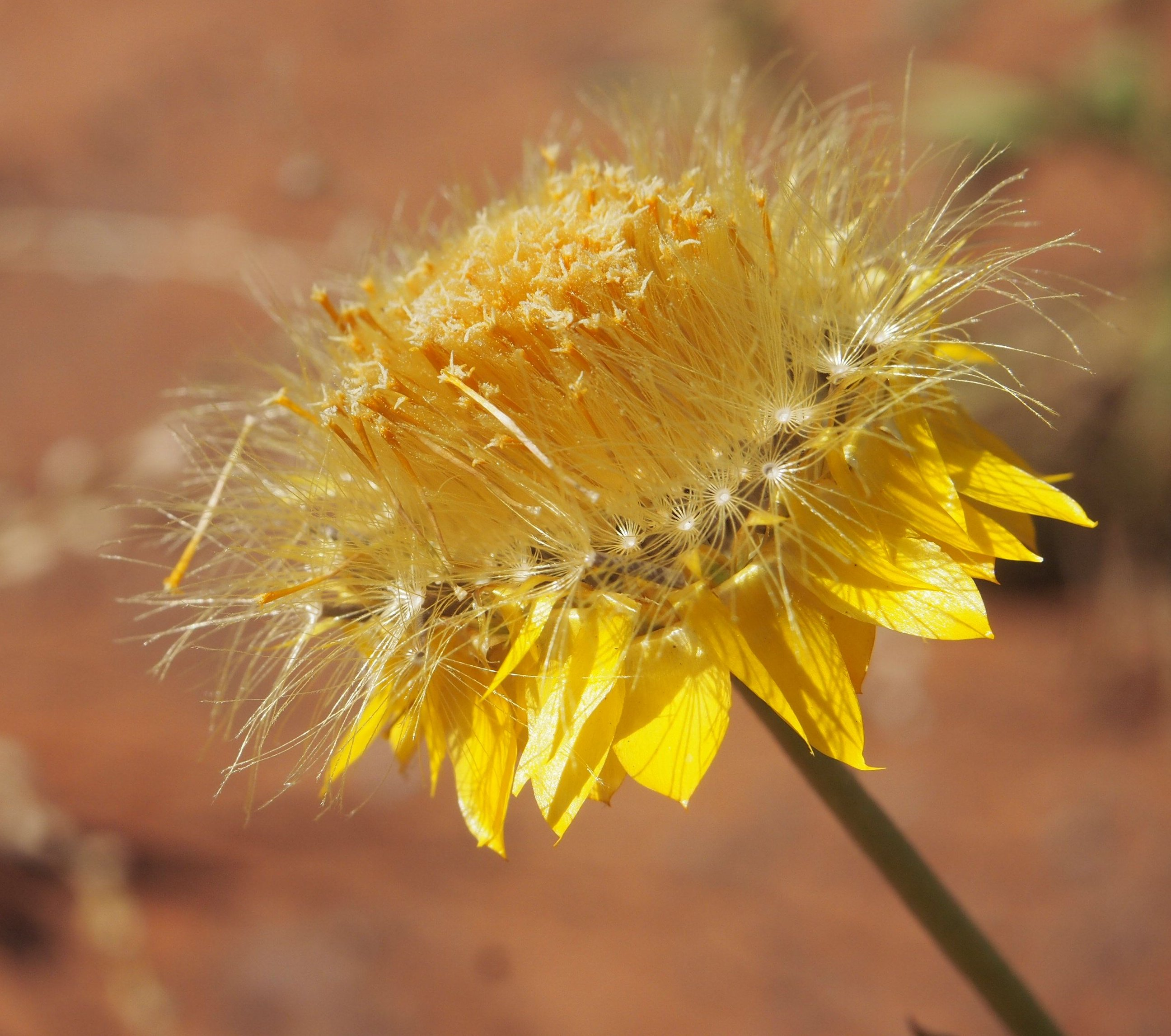 Xerochrysum bracteatum achenes